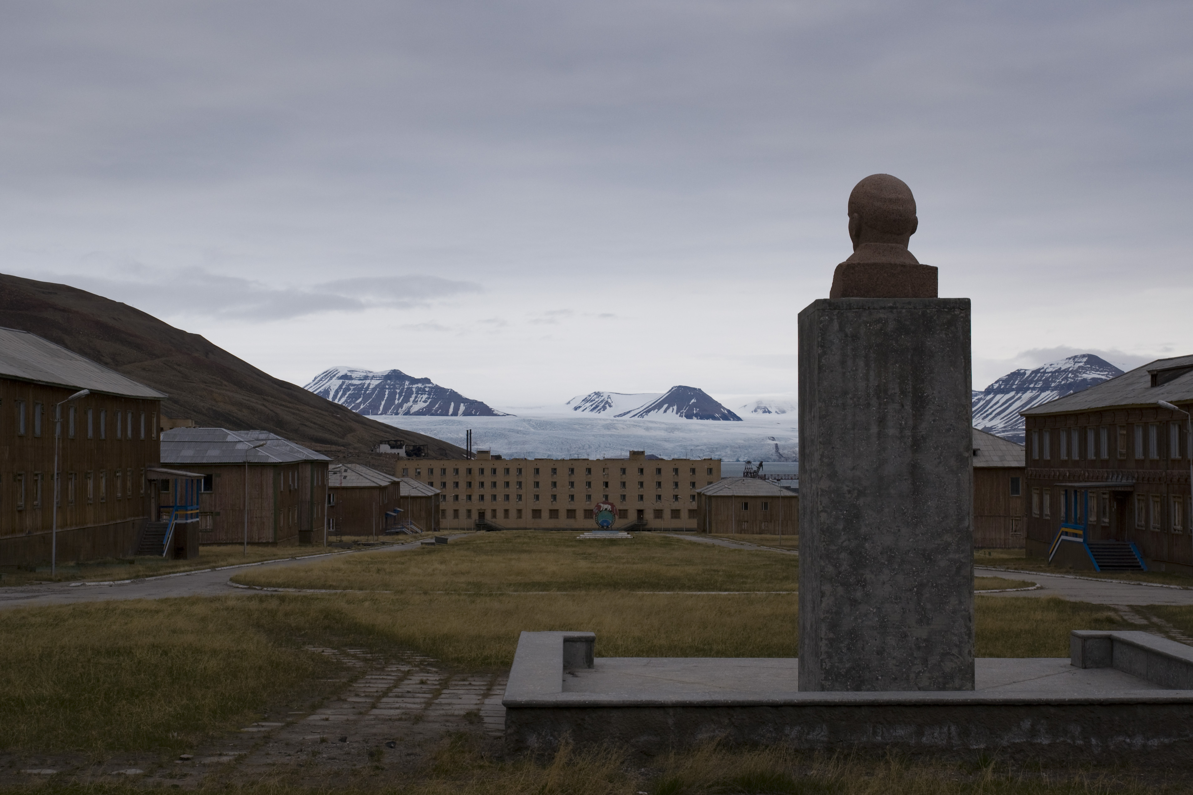 central square with Lenin statue in Pyramiden, Svalbard - in the background: Nordenskjöld glacier